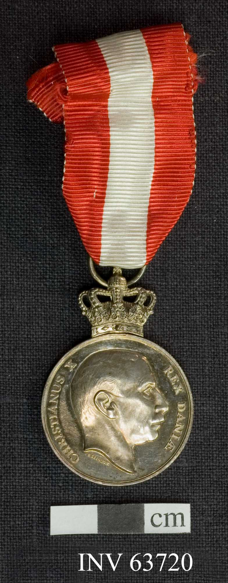 Danish medal: King Christian X's Freedom Medal, also called "Pro Dania" from the inscription on the reverse.